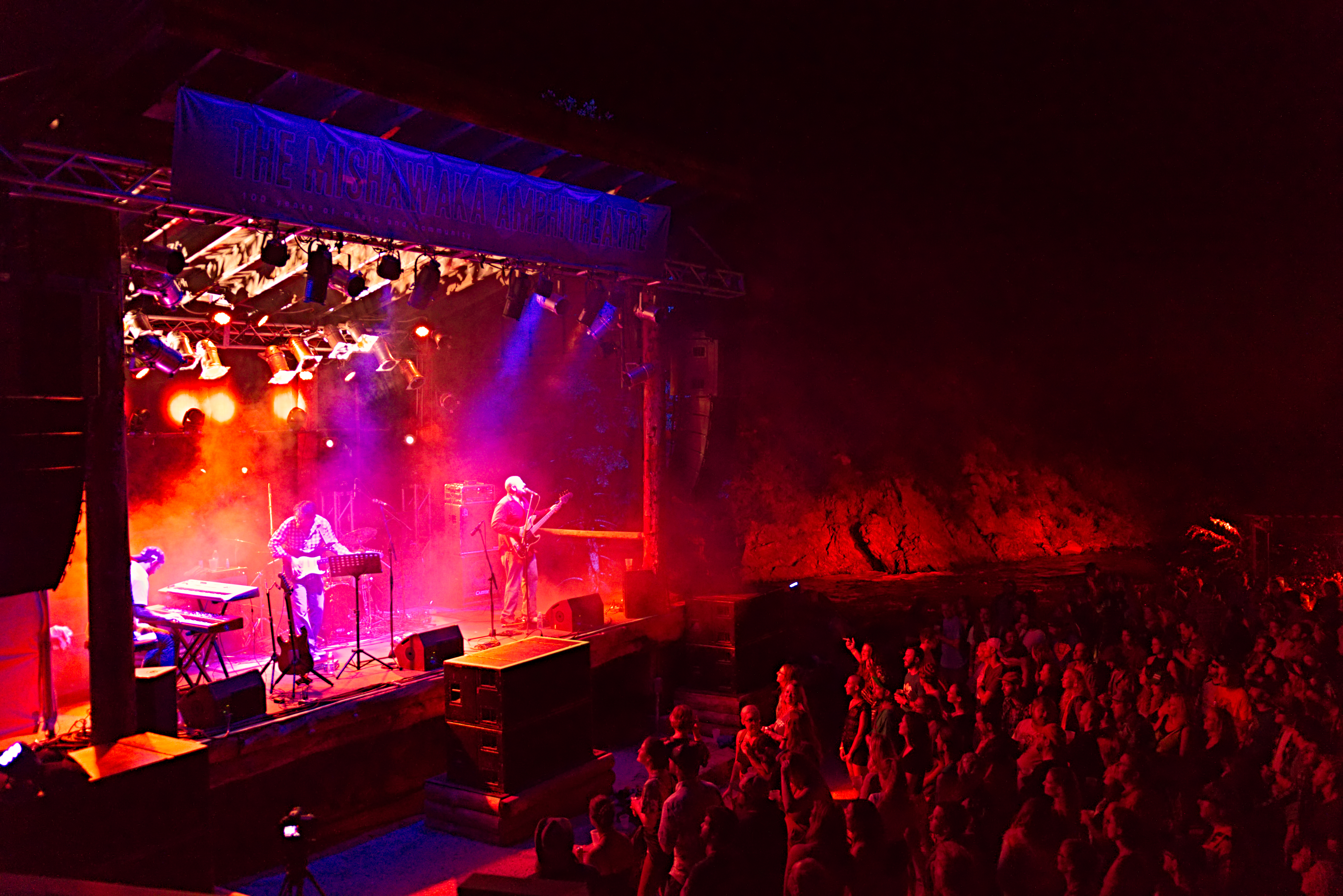 Photo Credit Sunny Side Production